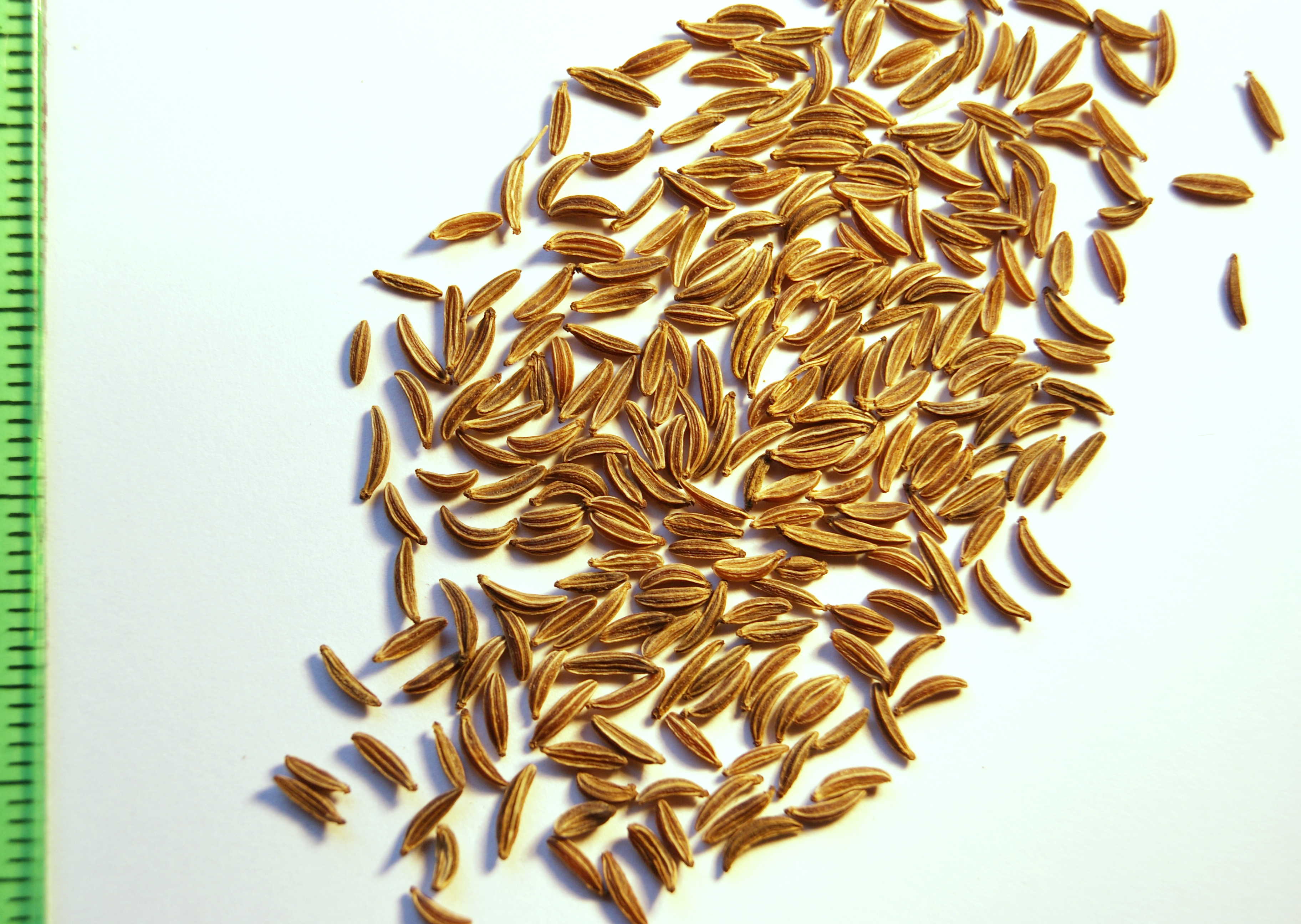 Carum carvi